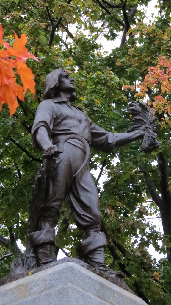 Since Louis Hebert in this statue is holding grain it is likely 2 row barley, he would likely be the first brewer of homegrown beer in the New World!